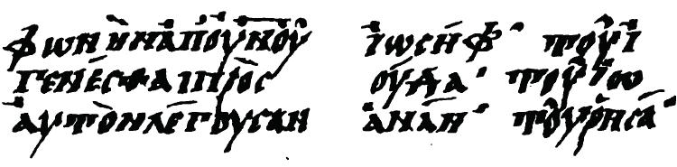 Tischendorfs facsimile edition of Luke 3:22.26-27 ("Anecdota Sacra et Profana" (Leipzig 1861), Tabula I)